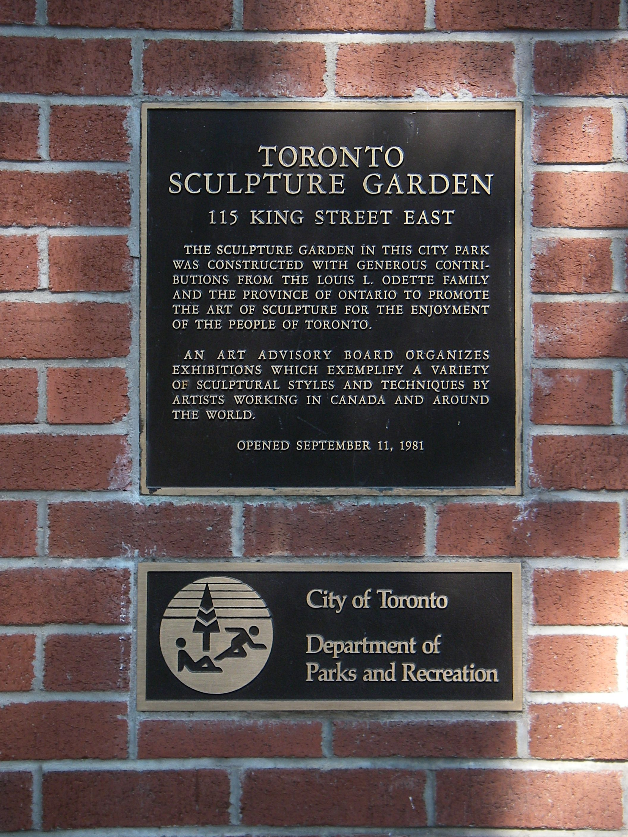 Picture I took of the sign on the brick wall near the entrance gate More pictures are in